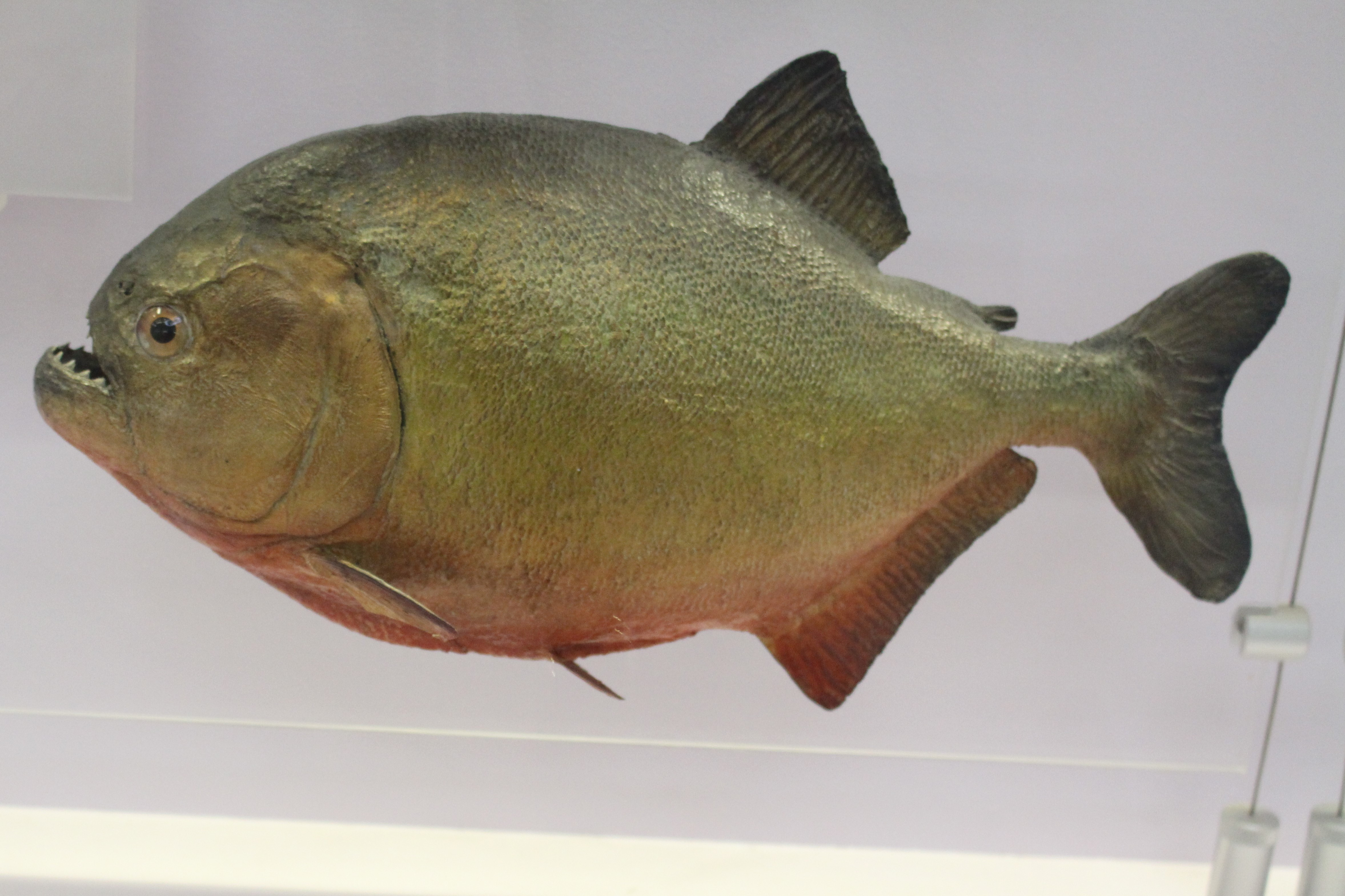 Red-bellied piranha (Pygocentrus nattereri) model at the Natural History Museum in London, England.